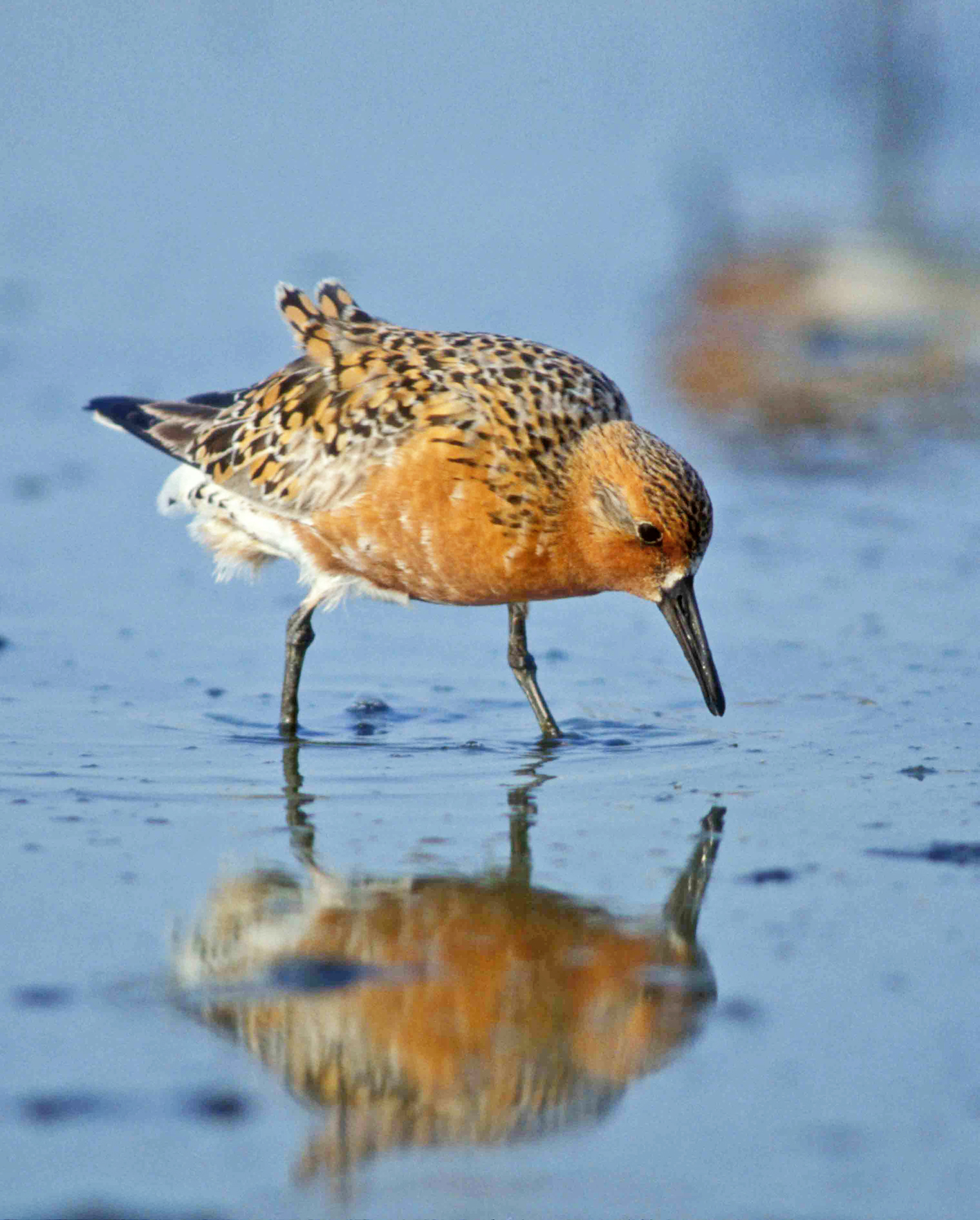 Commercial shellfish dredging in the Dutch Wadden Sea led to declines in both the quality and amount of the red knot's food resources, causing the population to crash.